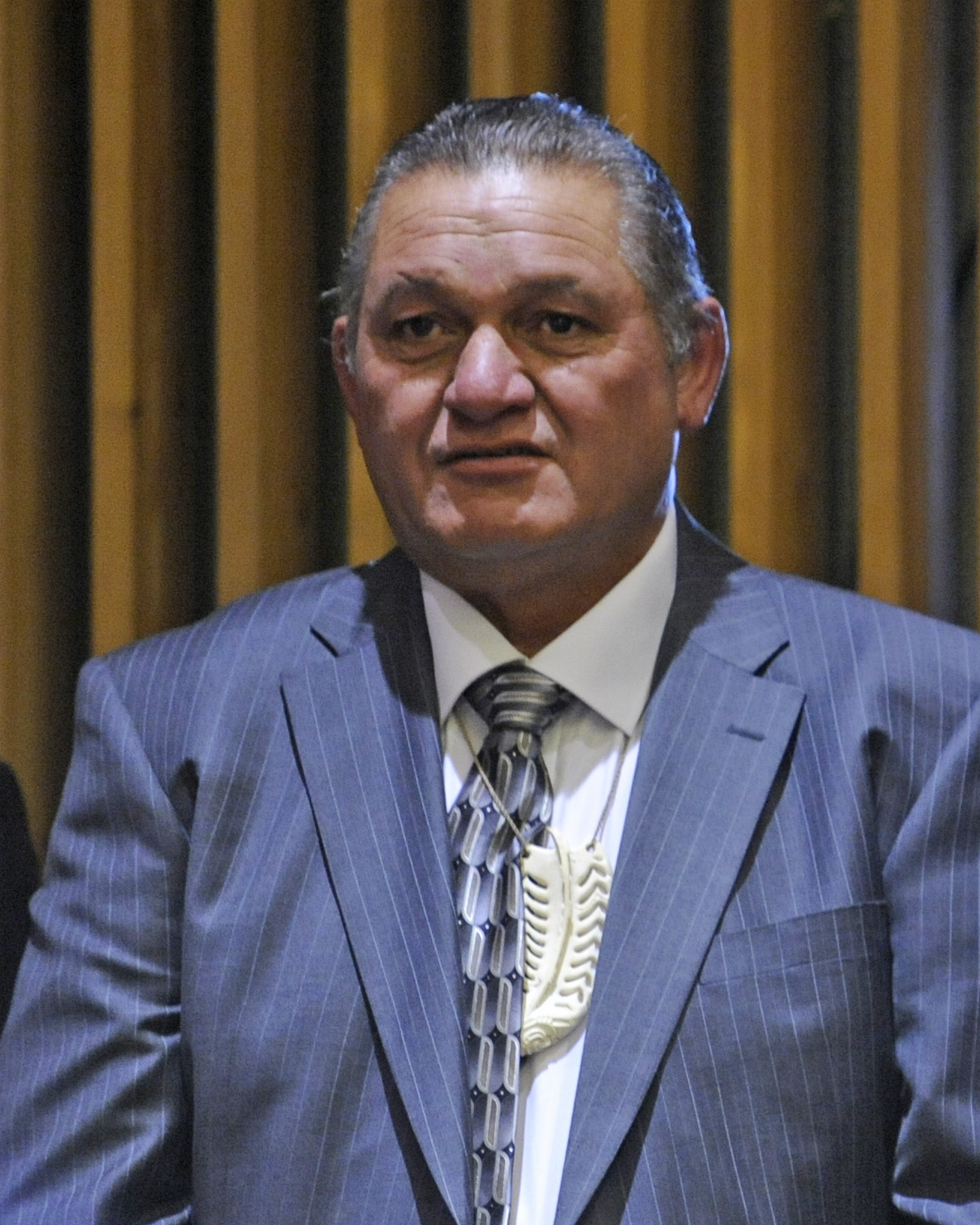 King Tuheita Paki at New York, April 2, 2009—The halls of the United Nations echoed with singing and chanting today during the colorful and lively traditional Maori ceremony to welcome UNDP Administrator Helen Clark. The event, called a powhiri, began with the thunderous sounding of a conch shell and a Maori warrior’s dance, and ended with Helen Clark, the former Prime Minister of New Zealand, and her Māori delegation pressing noses with senior UN officials in a “hongi.”